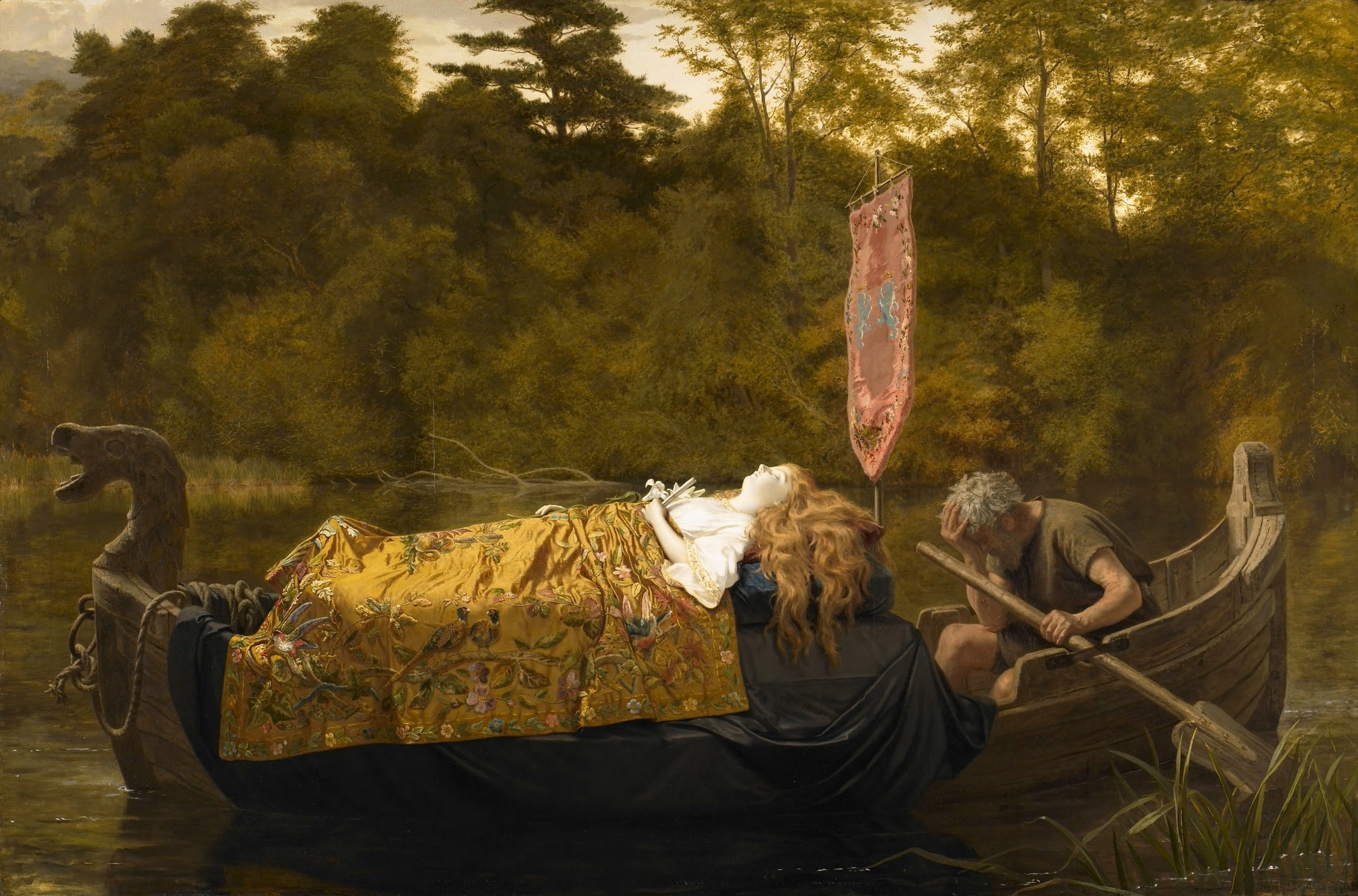 This painting is based on a poem by Lord Tennyson. It tells the tale of Elaine, an innocent country girl who falls in love with Sir Lancelot. He abandons her in favour of Queen Guinevere and she dies from unrequited love. Anderson’s picture depicts a servant rowing Elaine’s body to King Arthur’s palace at Camelot. Anderson was born in Paris and studied there under the Russian artist Baron Charles de Steuben. Her art education was cut short when her family moved to America in 1848. From then on she was self-taught. In 1871 Liverpool held its first Autumn Exhibition. 'Elaine' was purchased for the town and became the first work by a female artist to enter the Walker Art Gallery collection. This remarkable acquisition indicates the forward-thinking attitude of the first purchase committee.